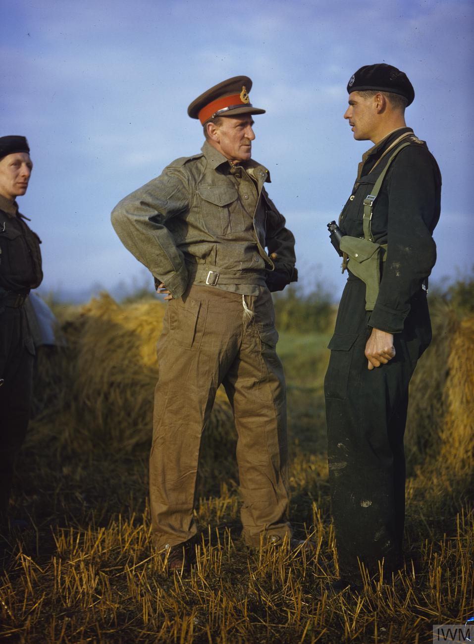 42nd Armoured Division Exercise, Near Malton in Yorkshire, 29 September 1942 The Commander in Chief Home Forces, General Sir Bernard Paget, in battle-dress overalls talking to a tank commander of the 42nd Armoured Division during the exercise.